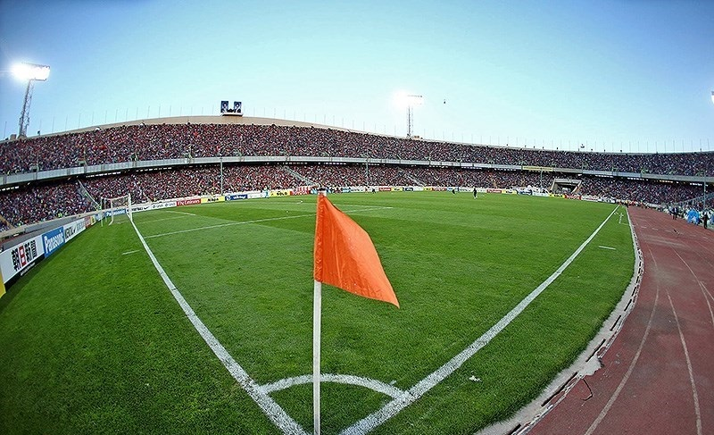 Azadi Stadium during Persepolis vs Al-Nasr match in AFC Champions League